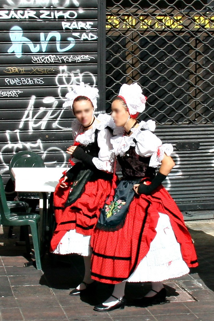 Two young girls in traditional celebration costume of Nice (France).